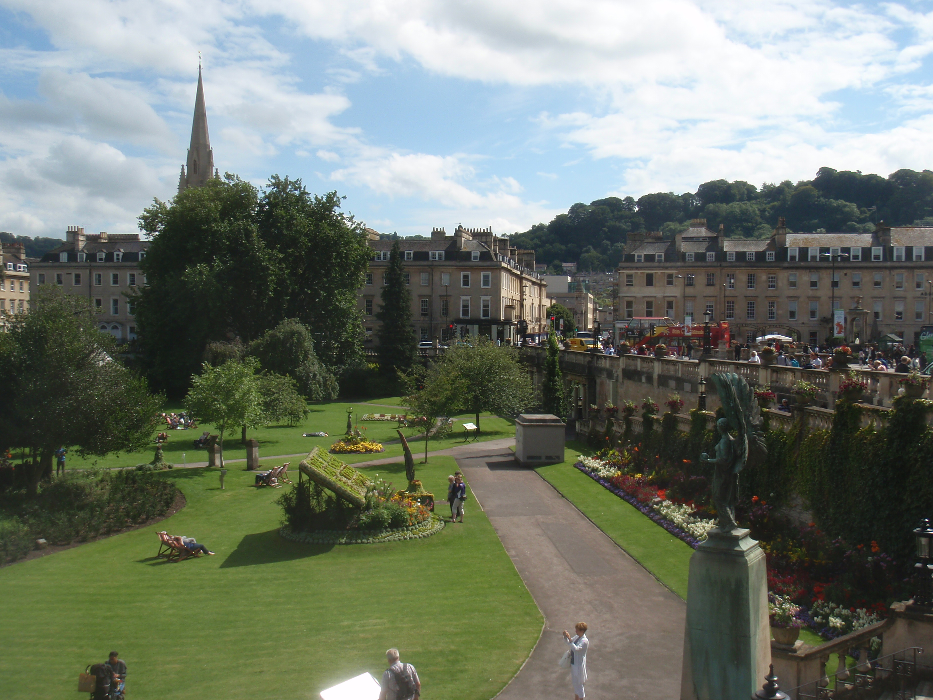 Bath, Somerset